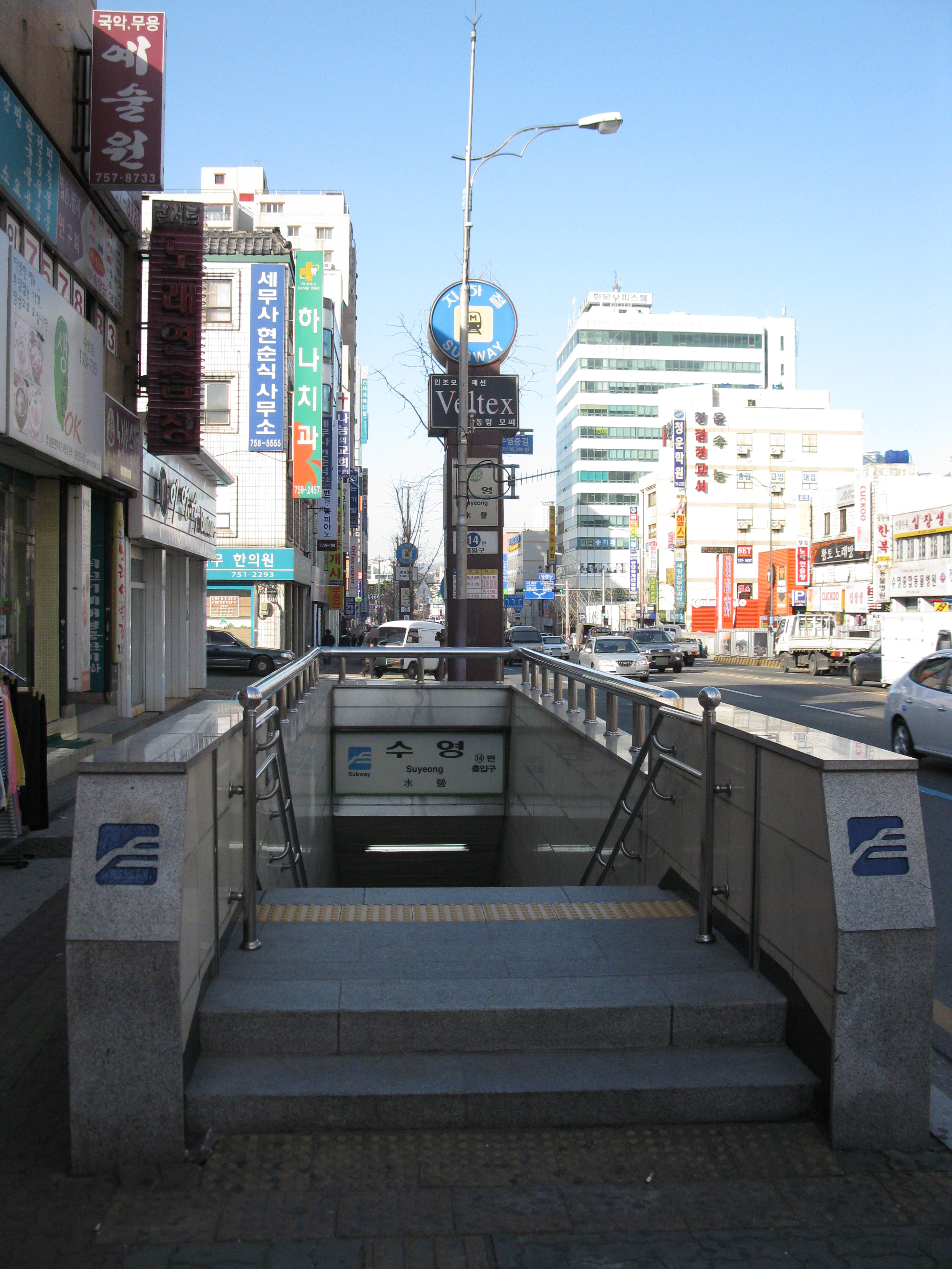 The no.14 entrance to Suyeong Station on the Busan Subway Line 2 and Line 3 in Busan, Republic of Korea